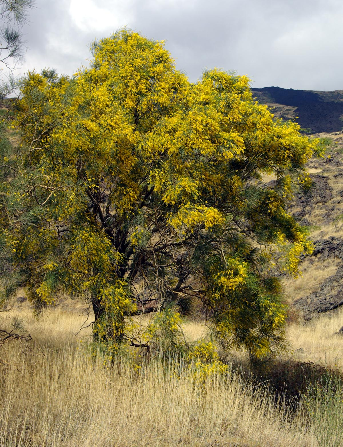 Etna broom tree growing on Mount Etna (recent larva flow visible above and right of tree)